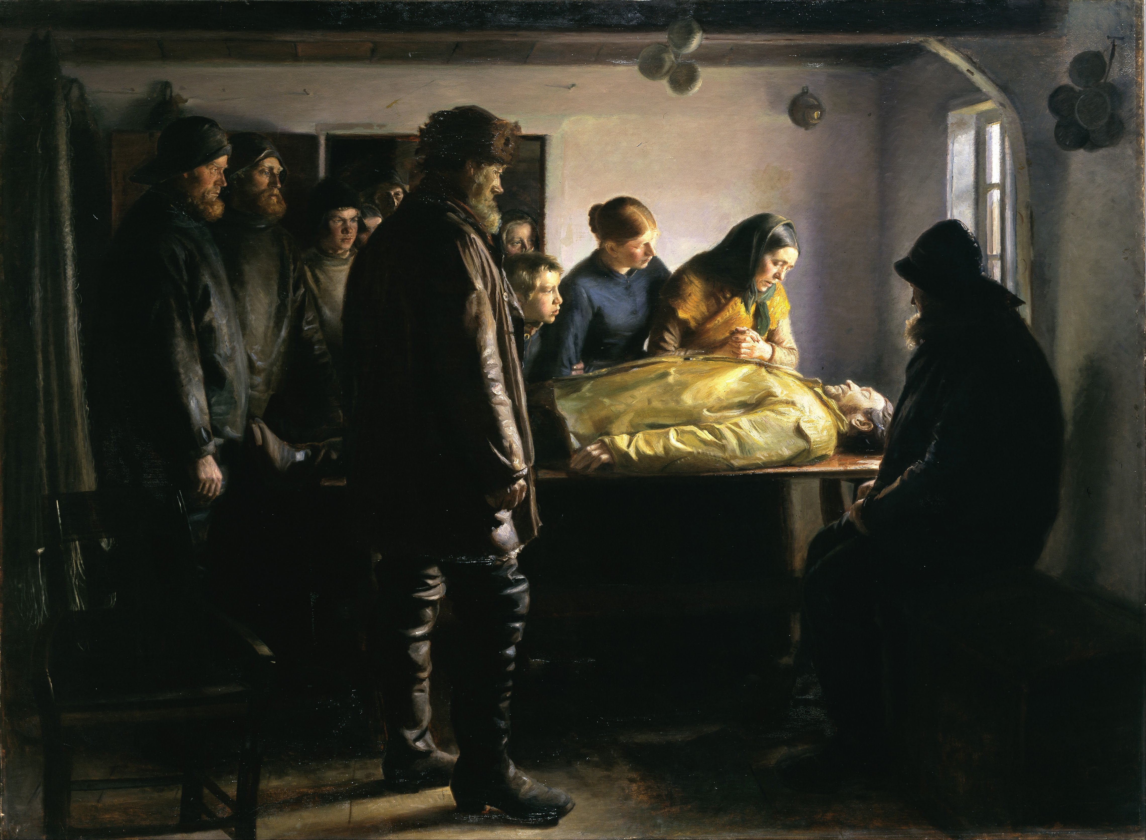 Michael Ancher got the idea for this painting after a dramatic event in 1894 in which two fishermen drowned at work. One of them was the fisherman and rescuer Lars Kruse, who became famous in Denmark in 1879 because Holger Drachmann wrote a short story about his heroism. Several national newspapers thus wrote about Kruse’s funeral. The other person who drowned was a young man. Ancher painted many pictures of fishermen in the 1870s and 80s, and The drowned was his last major figure composition with fishermen as the subject matter. The image space is constructed as a scene in which the two fishermen in the foreground have stepped to the side, exposing to the viewer the table with the drowned man. The oppressive atmosphere is emphasized by the serious faces of the fishermen and the drowned man is highlighted by the yellow raincoat and the light streaming in from the window.